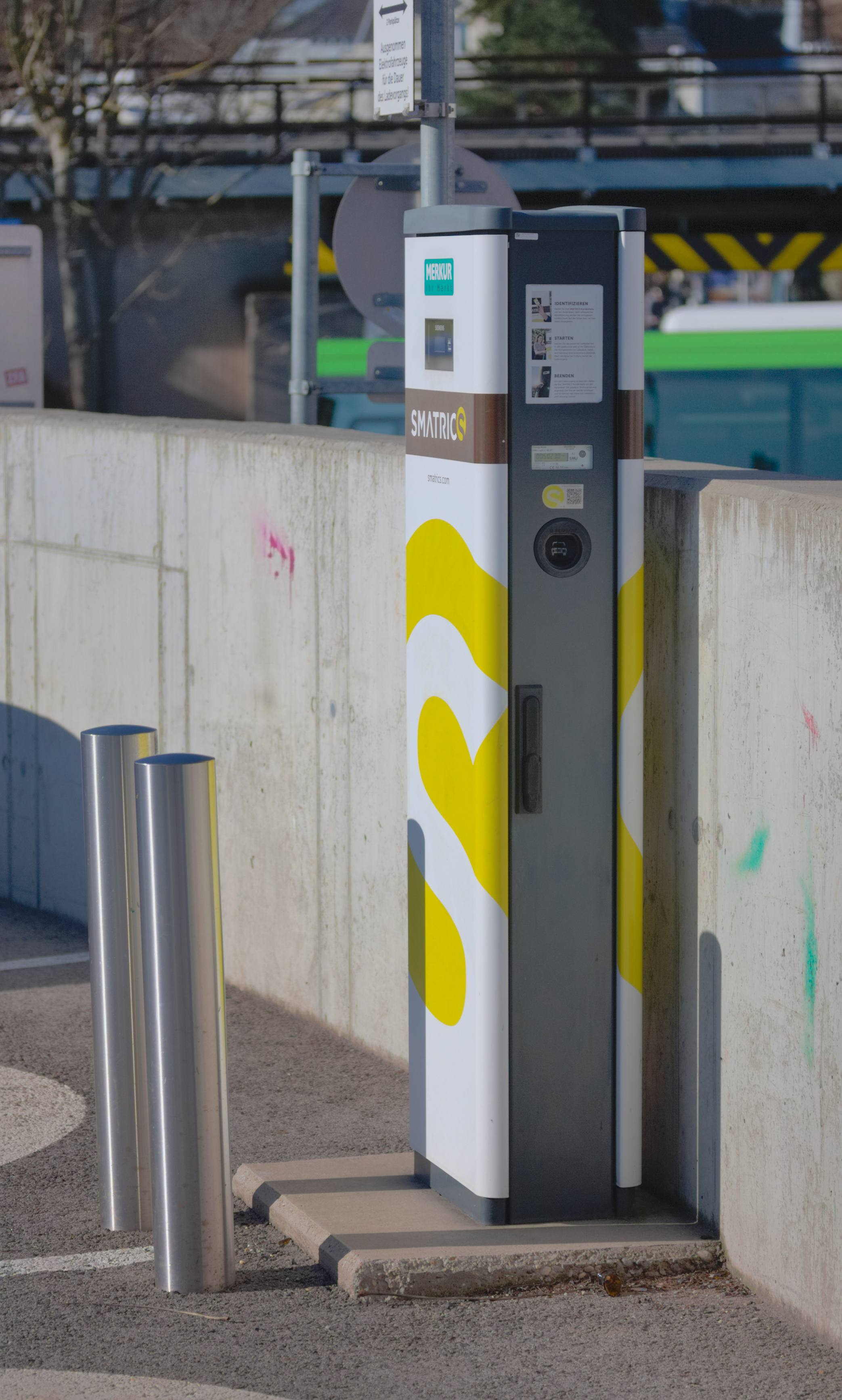 A charging station by SMATRICS at Bergmillergasse 7, Vienna, Austria